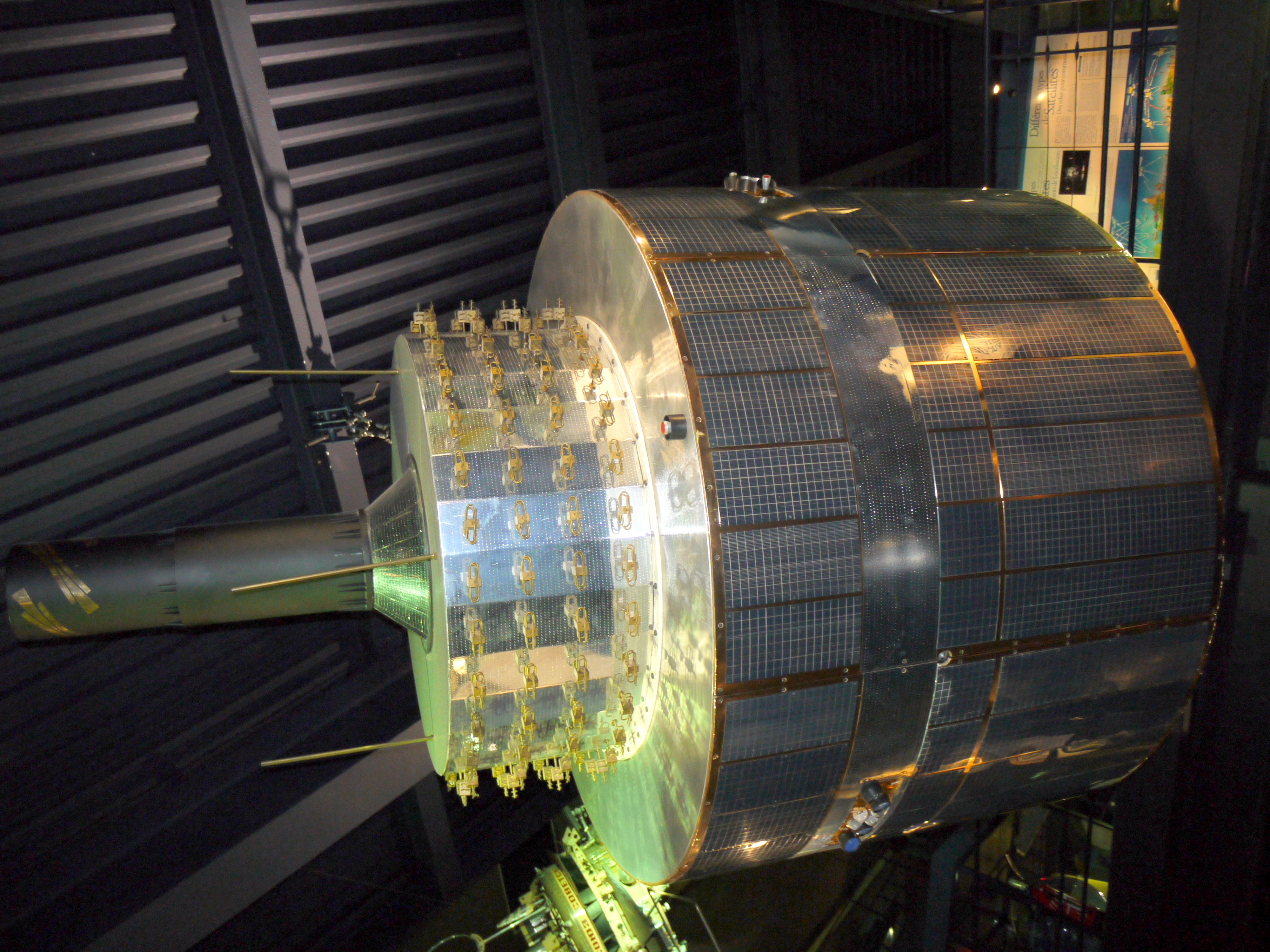 Mockup of the Meteorological satellite Meteosat 1 (1977), Museum of Air and Space Paris, Le Bourget (France)